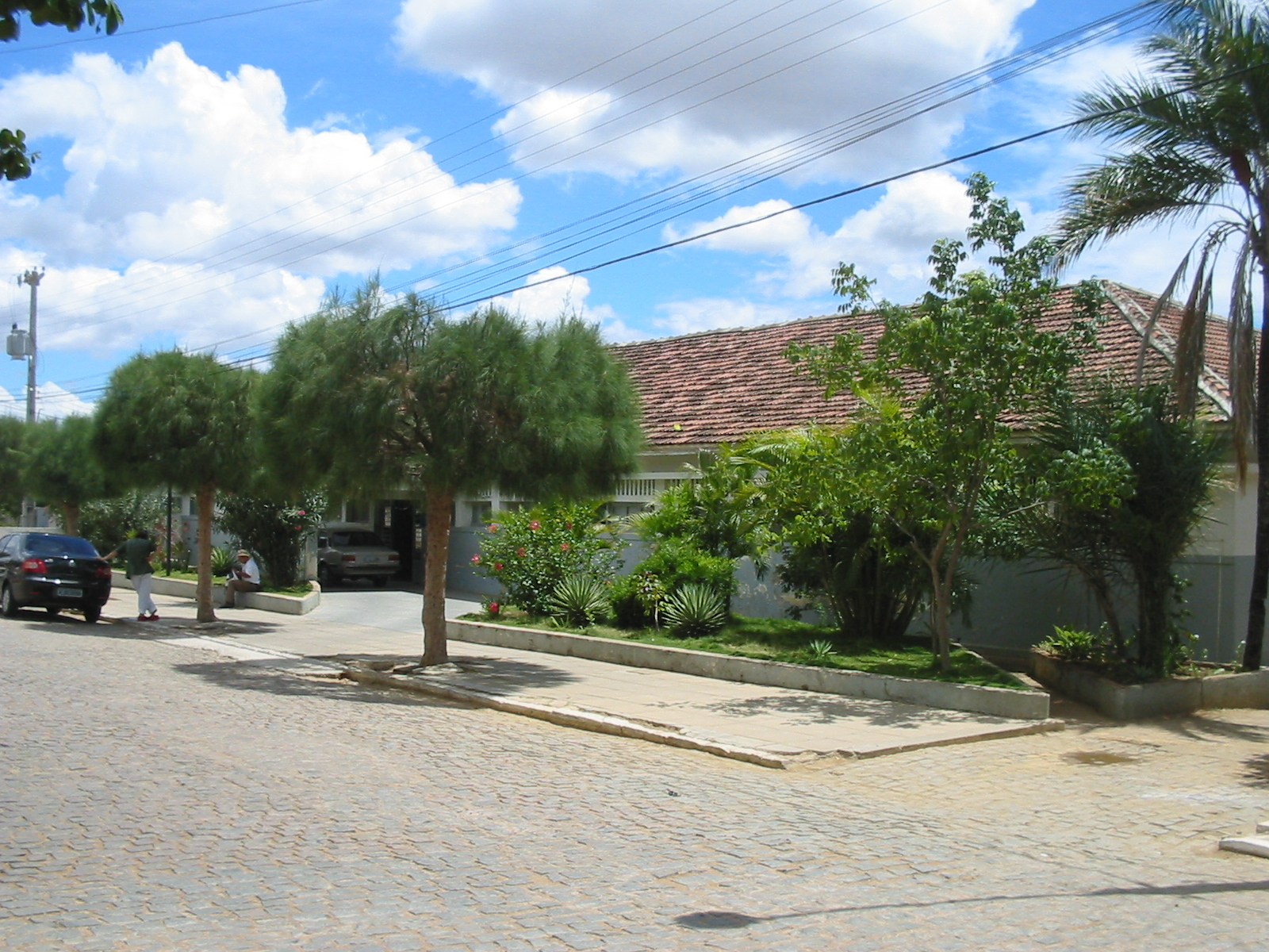 Riacho das Almas (Pernambuco), Brazil. Health unit.